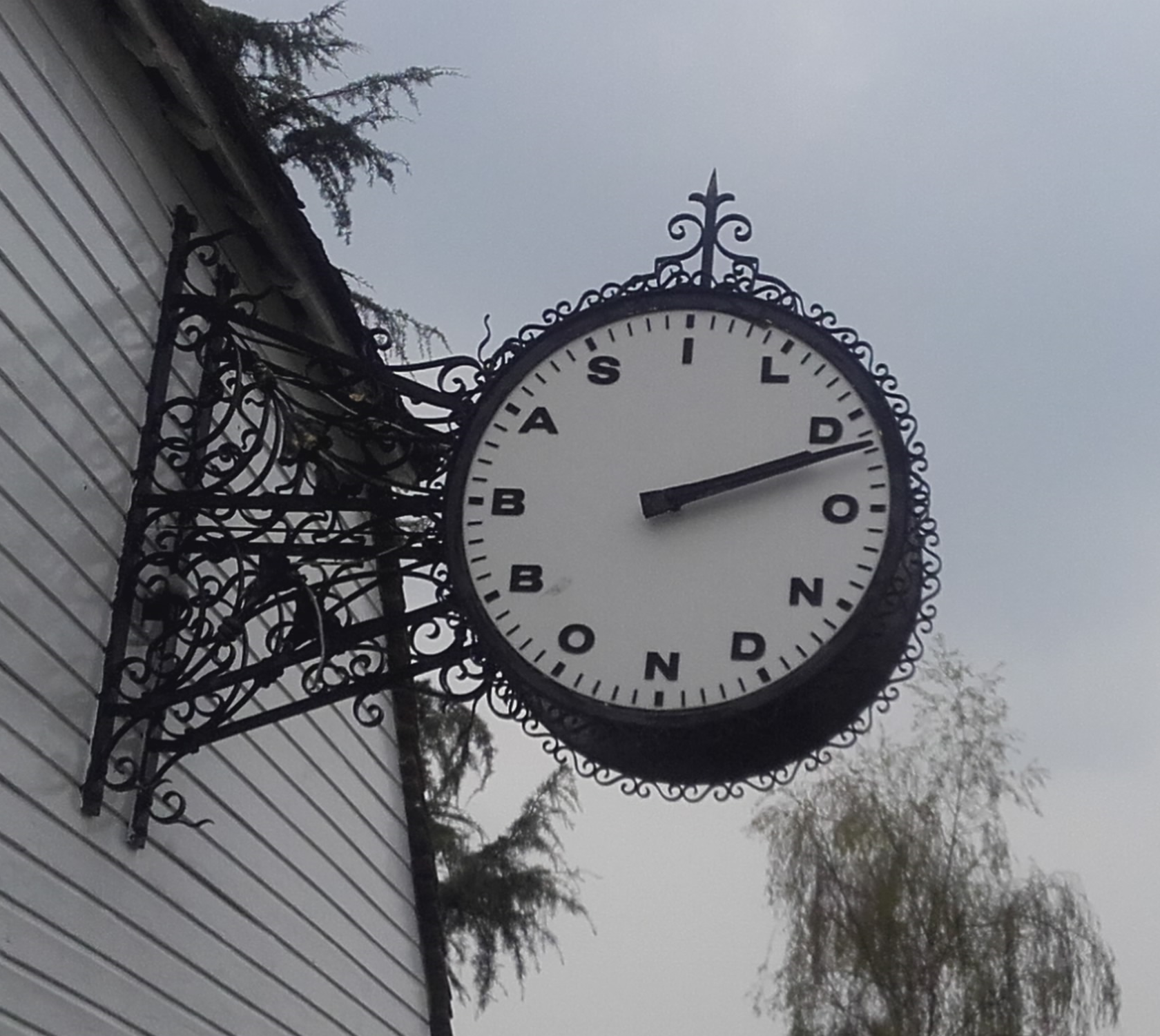 The Basildon Bond Clock at Nash Mill in Apsley, Hertfordshire.